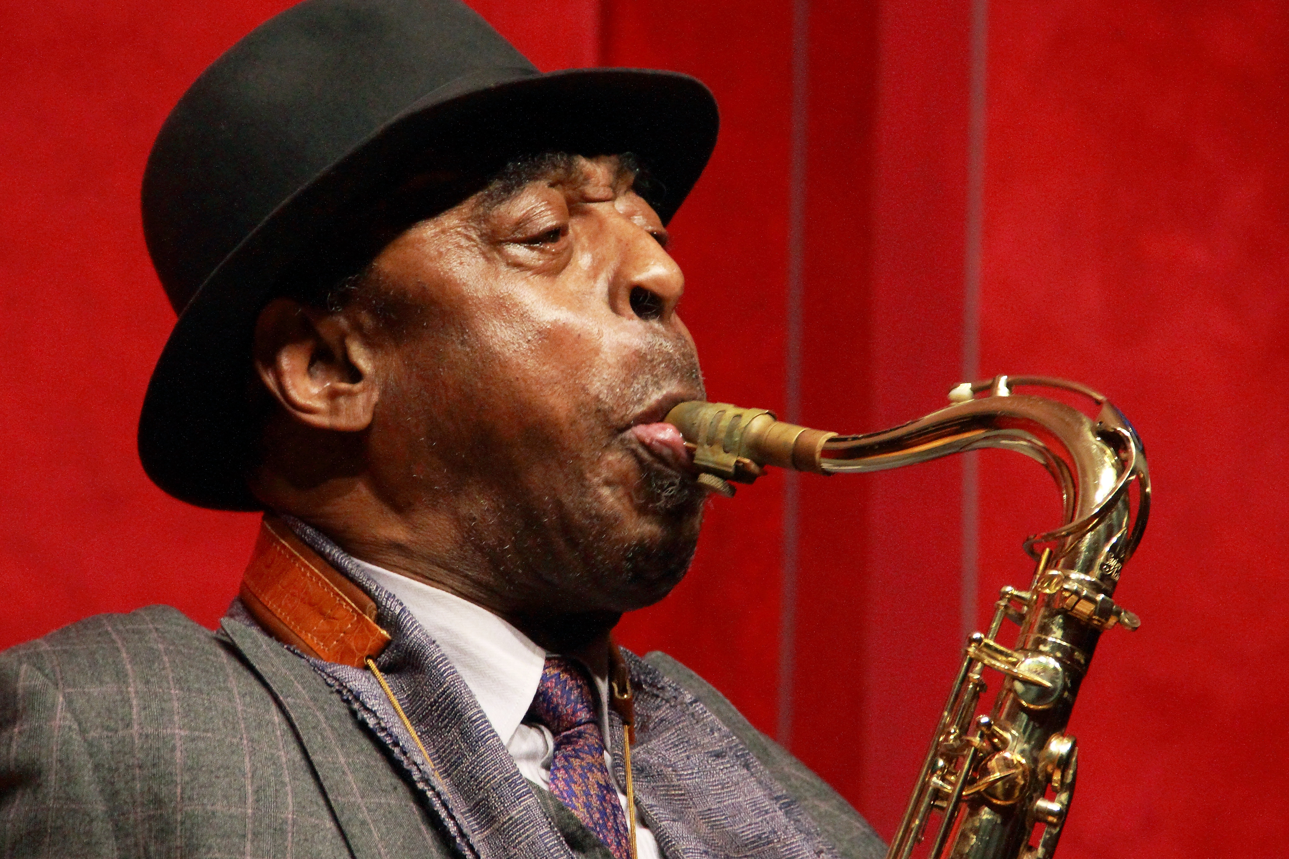 Concert of Archie Shepp and Reggie Workman in the Red Hall' of the Deutschordensmuseum Bad Mergentheim, 2016.6.